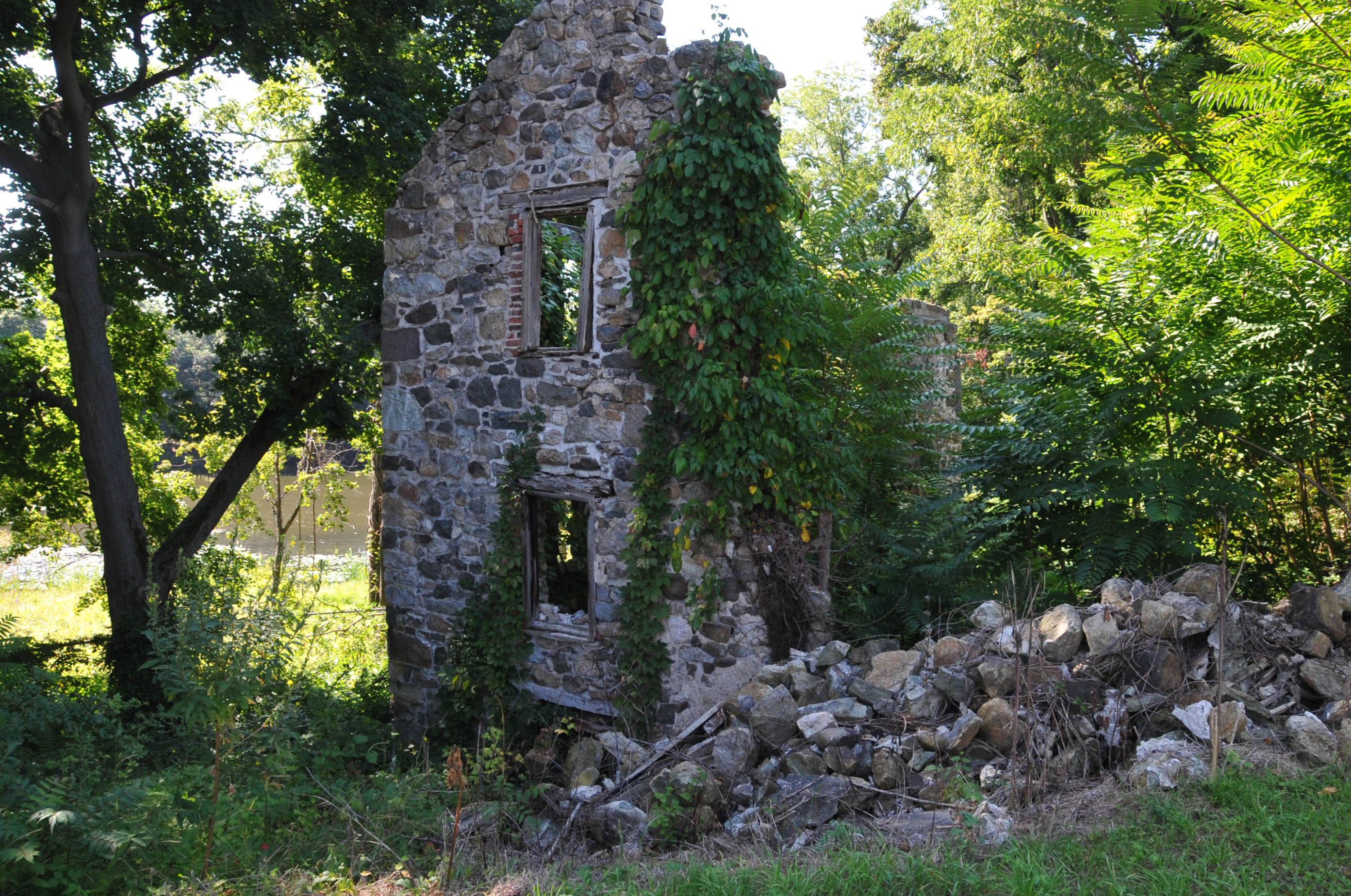 BUILT CIRCA 1800 BY THE LOCAL IRON COMPANY TO MAKE LIME FROM GYPSUMFOPR AGRICULTURAL PURPOSES. LATER IT WAS USED AS HOUSING FOR WORKERS AT THE LOCAL IRON COMPLEX. MILL IS NOW IN RUINS BUT STANDS RIGHT BESIDE THE MORRIS CANAL